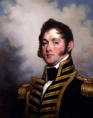 Portrait of Commodore Oliver Hazard Perry, Toledo Museum of Art